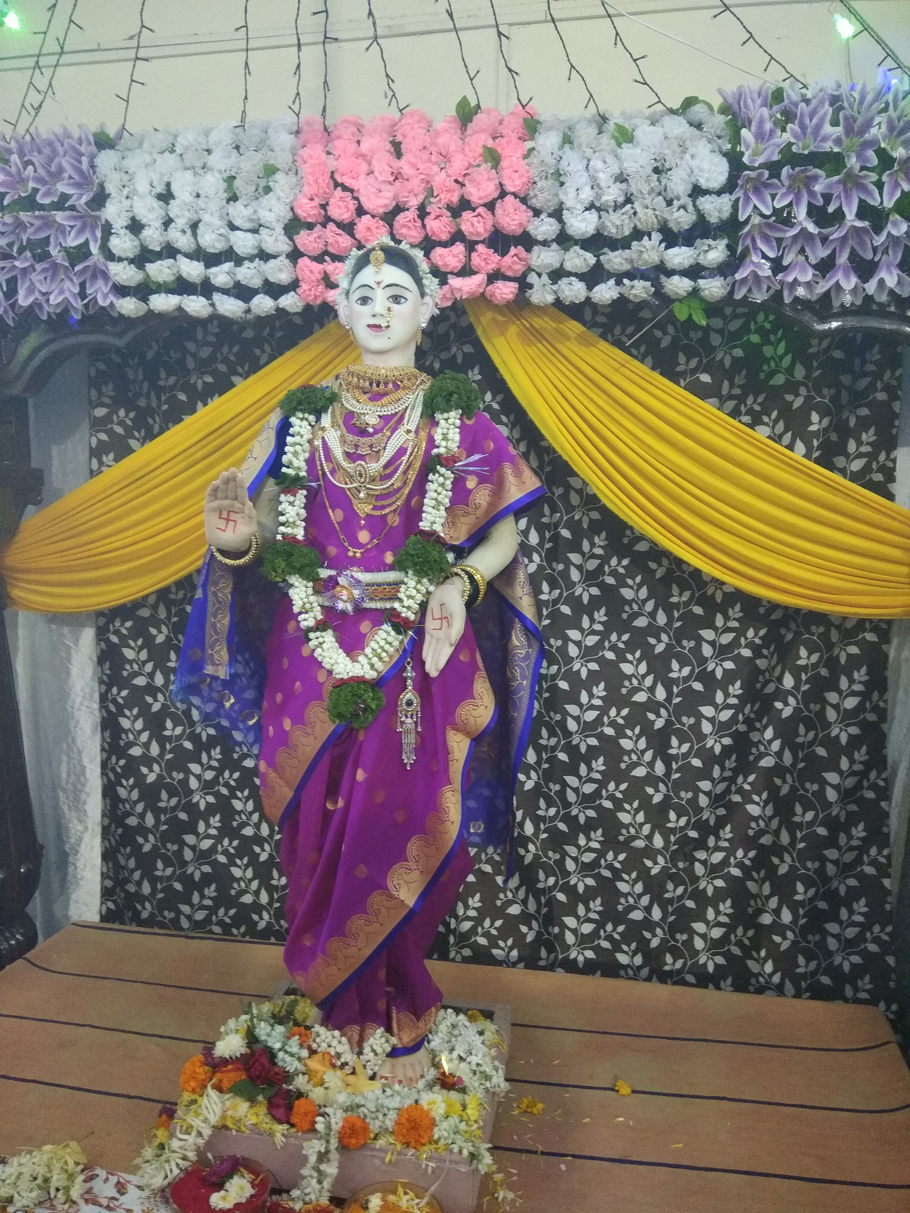 Mahalakshmi Pooja in navratri